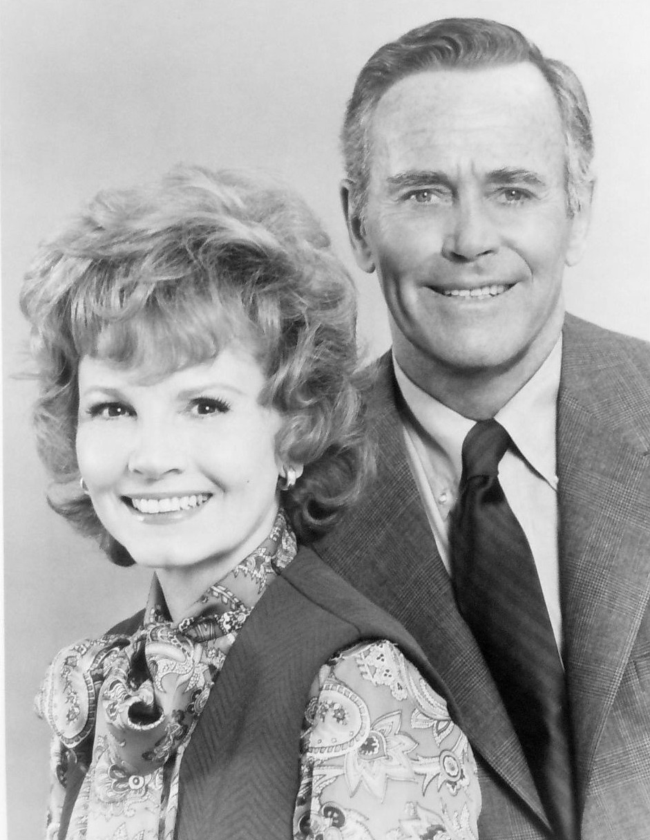 Photo of Janet Blair and Henry Fonda from the television program The Smith Family. Fonda played Chad Smith and Blair played his wife, Betty.